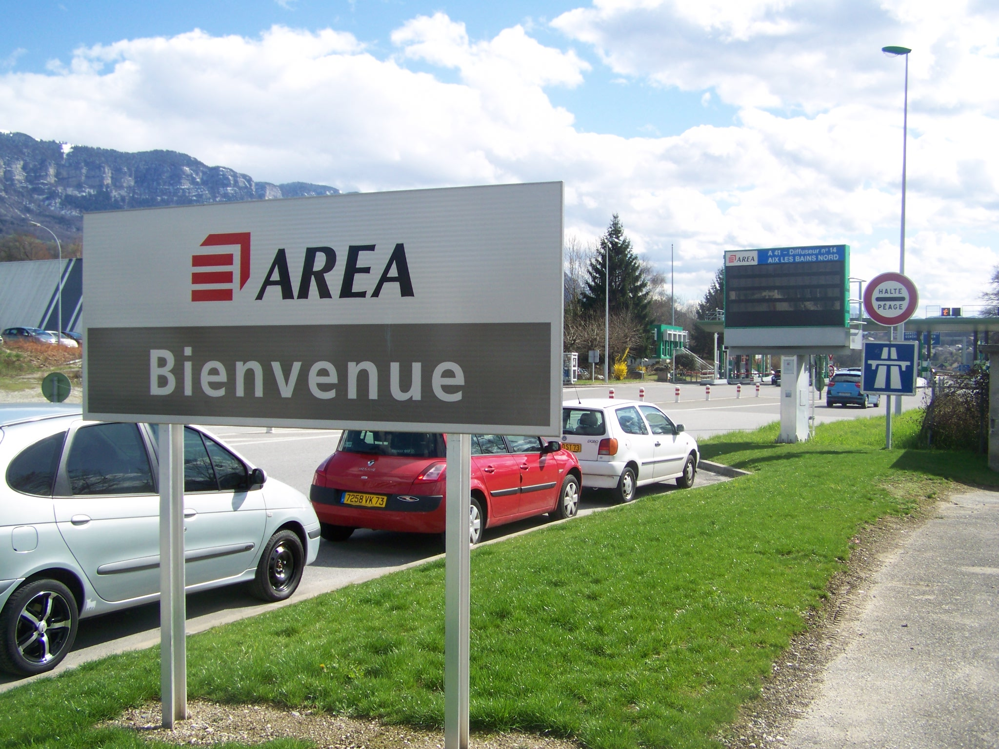 French company AREA welcoming drivers to its motorway A41 at Aix-les-Bains in Savoie.